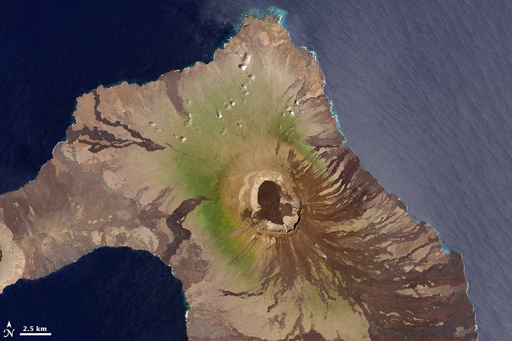 Wolf Volcano, Isabela Island, Galapagos NASA image created by Jesse Allen, using Landsat data provided by the United States Geological Survey. Caption by Michon Scott. Instrument: Landsat 7 - ETM+